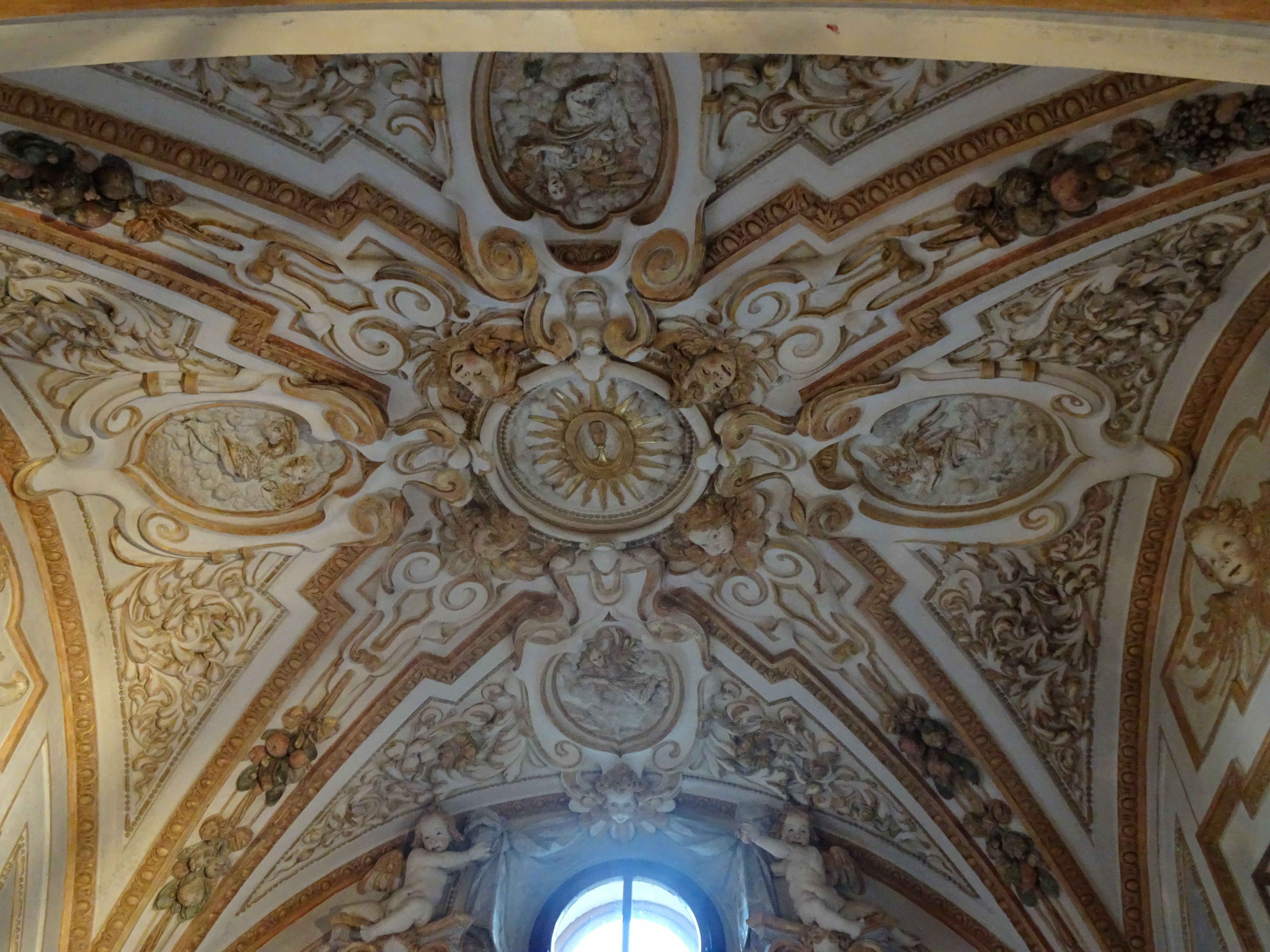 Oplotnica Mansion, Stucco ceiling in the Chapel